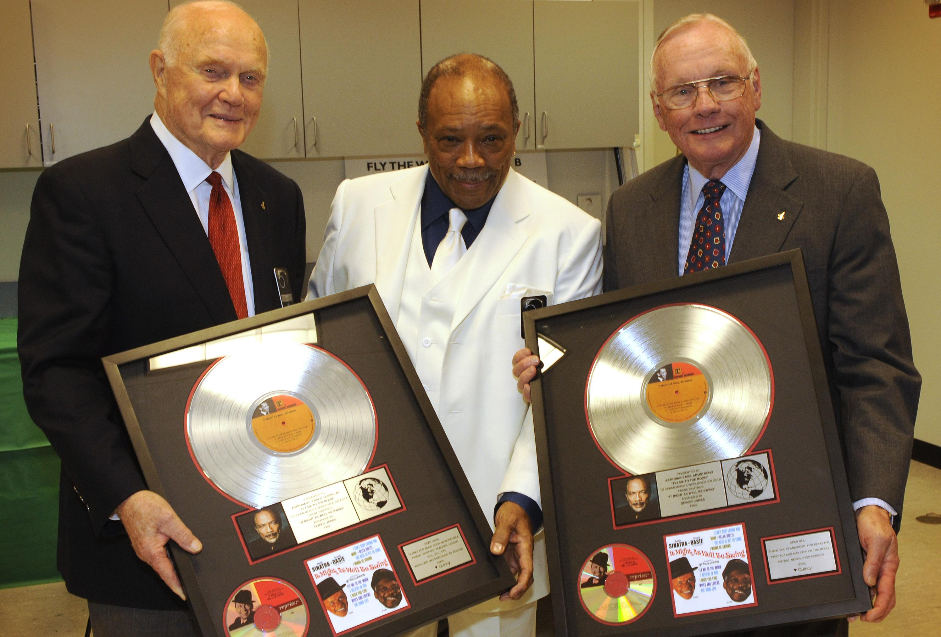 Grammy Award-winning producer Quincy Jones presented a platinum copy of "Fly Me to the Moon" to Senator John Glenn and Apollo 11 Commander Neil Armstrong during NASA's 50th anniversary gala.